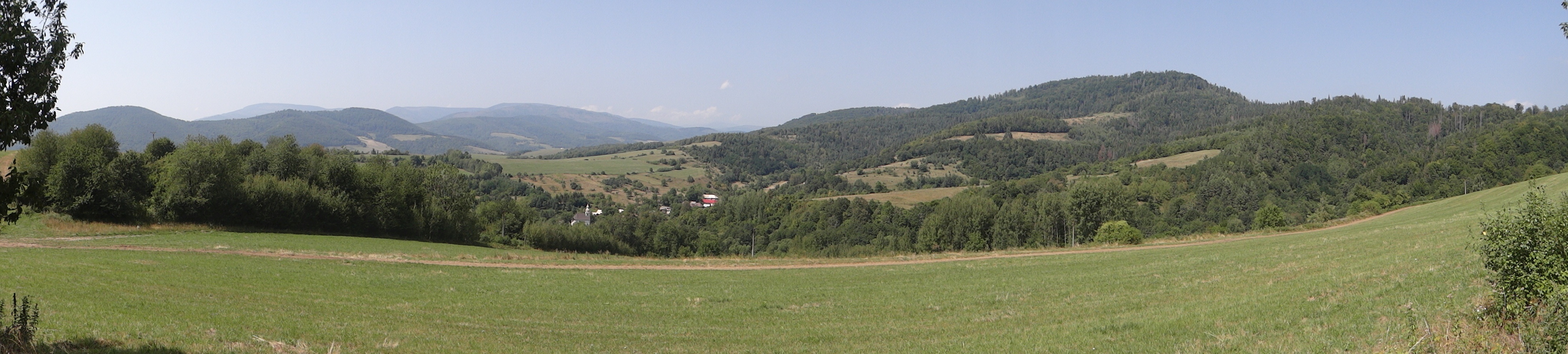 Petrovo, view general